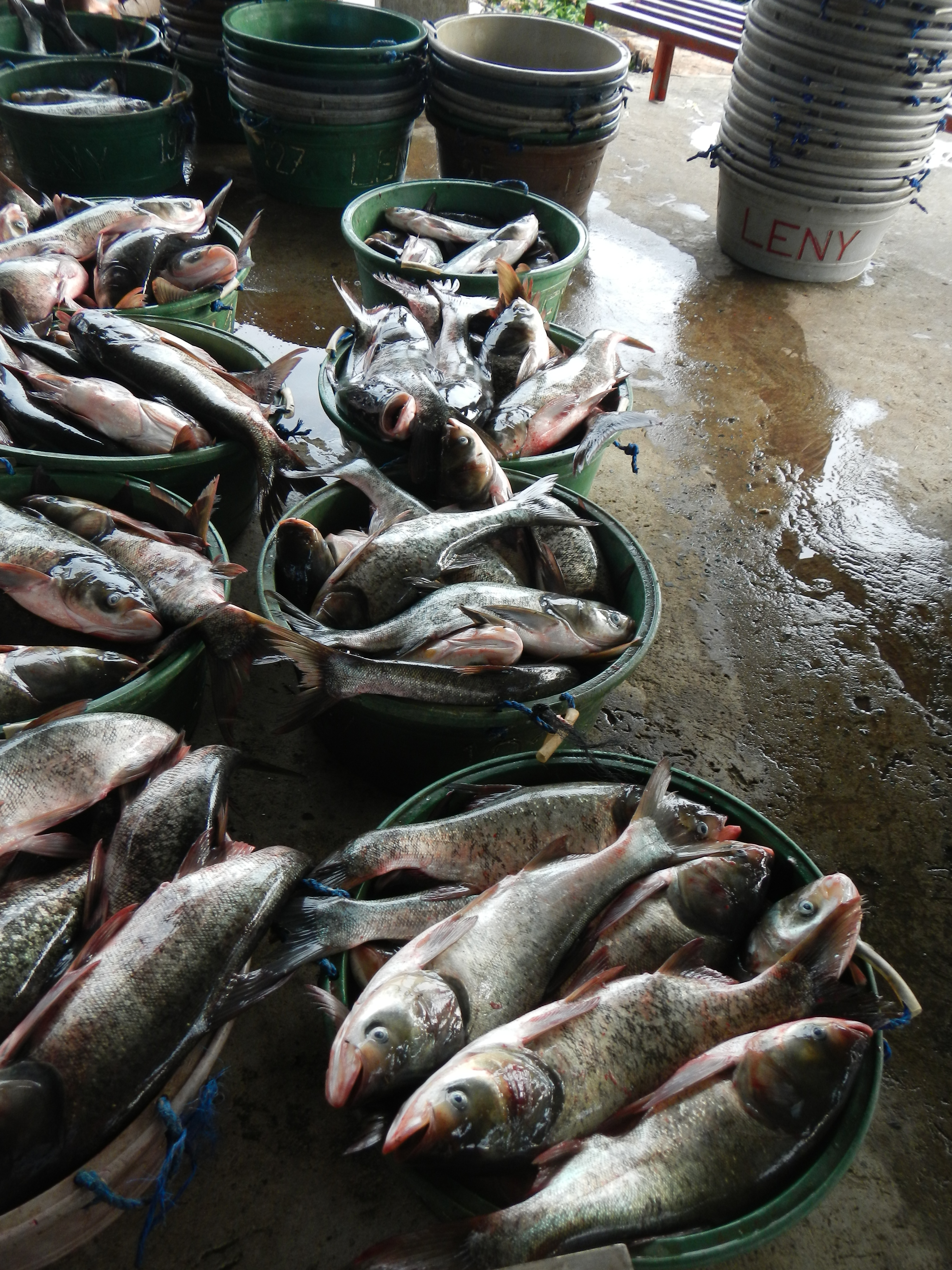 Rare, raw, unedited and original photos of the Bighead carp [1] (Hypophthalmichthys nobilis or Aristichthys nobilis (Richardson, 1845) is a freshwater fish, one of several Asian carps. It has a large, scaleless head, a large mouth, and eyes located very low on the head. Adults usually have a mottled silver-gray coloration. Carp fishing[2] is a common name for various species of freshwater fish of the family Cyprinidae,[3] a very large group of fish native to Europe and Asia. Bighead carp is usually grown together with tilapia or milkfish in Laguna de Bay or Lake. Larvae and juveniles prefer to feed on zooplankton, while adults feed on both phyto- and zooplankton. [4] carp culture Grows fast, reaching 2-4 kilograms in 4-6 months[5] & ---- Arius manillensis[6] is a species of marine catfish[7] endemic to the island of Luzon, Philippines. It is commonly known as the Manila sea catfish or kanduli. It is fished commercially. Arius manillensis was first described by the French zoologist Achille Valenciennes in 1840. It belongs to the genus Arius[8] of the subfamily Ariinae, family Ariidae (ariid or fork-tailed catfishes). ther common names of the species include kandule, dupit, kiti-kiti, tabangongo, and tauti.[9]Salmon catfish -- Fish farming[10] is the principal form of aquaculture, while other methods may fall under mariculture: Sea Catfish (Kanduli)